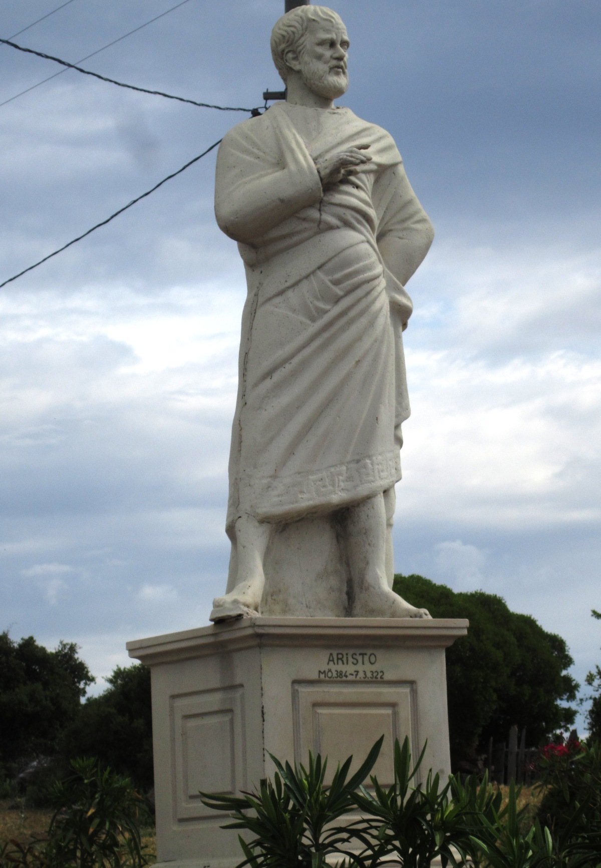 Aristoteles Monument in Assos